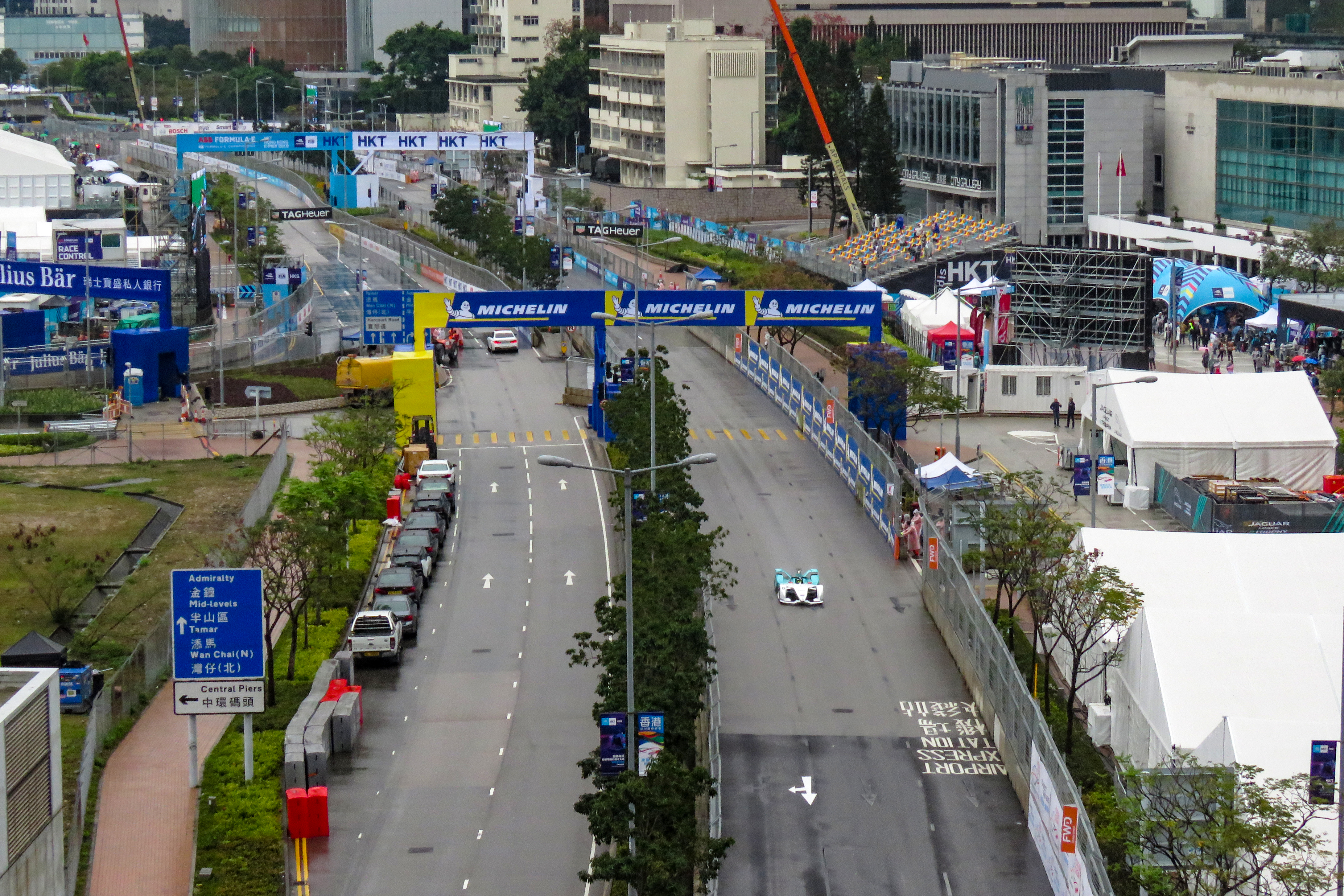 Taken from the terrace of ifc.